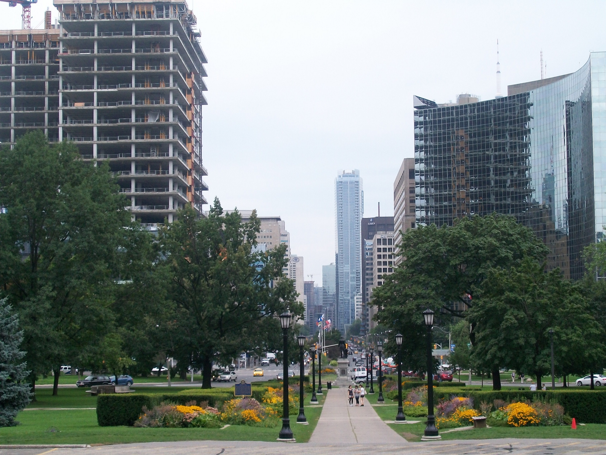 From Ontario Legislature/Queen's Circle. MaRS Phase 2 under construction.